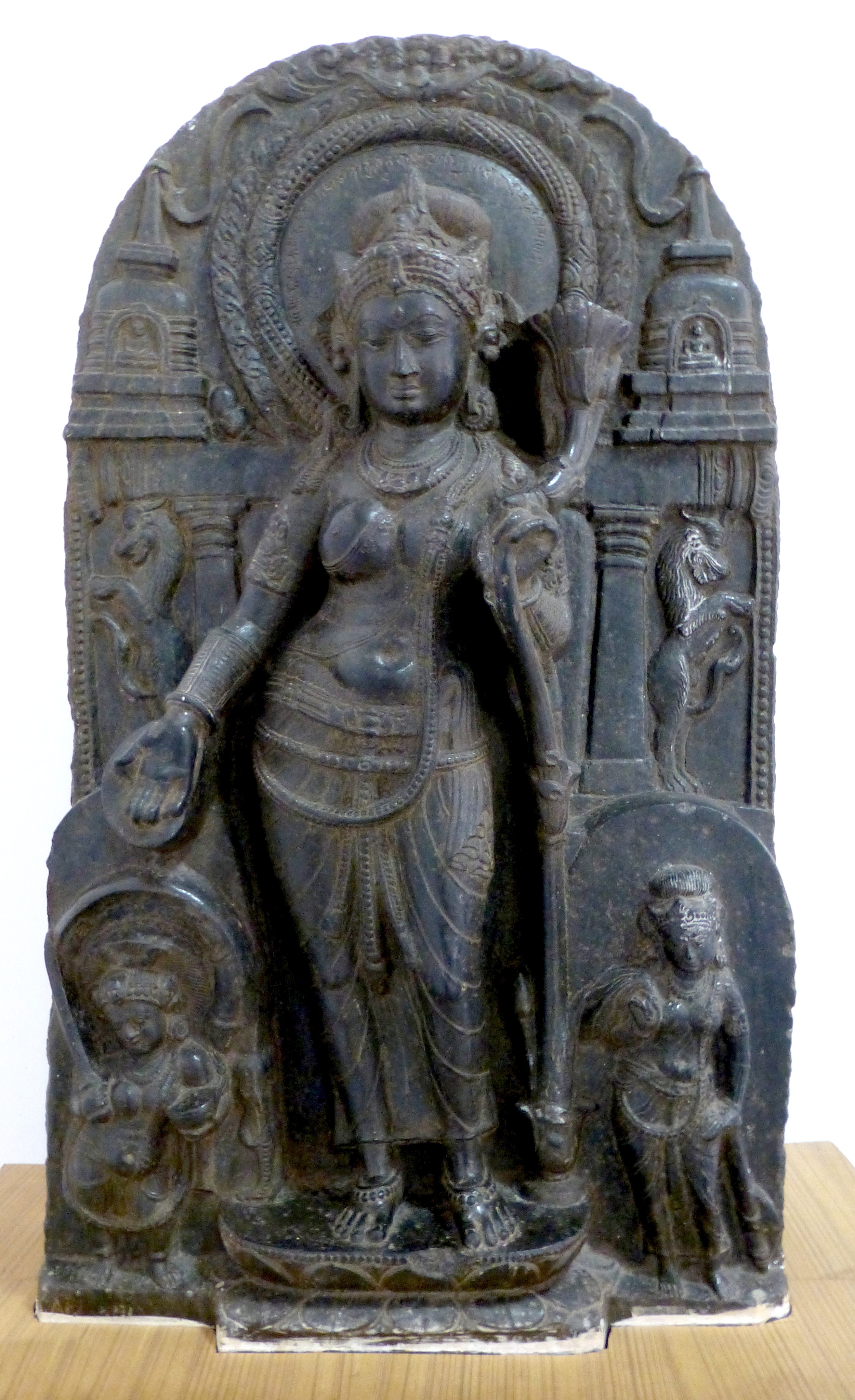 25 Tara 10-11c Gaya, at the Patna Museum, Bihar Photograph from the Patna Museum in Bihar taken by Anandajoti.